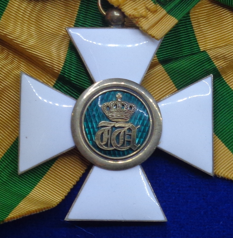 Order of the Oak Crown, badge of Grand Cross, c.1970. Luxembourg. The exhibition of the Tallinn Museum of Orders of Knighthood, Estonia.